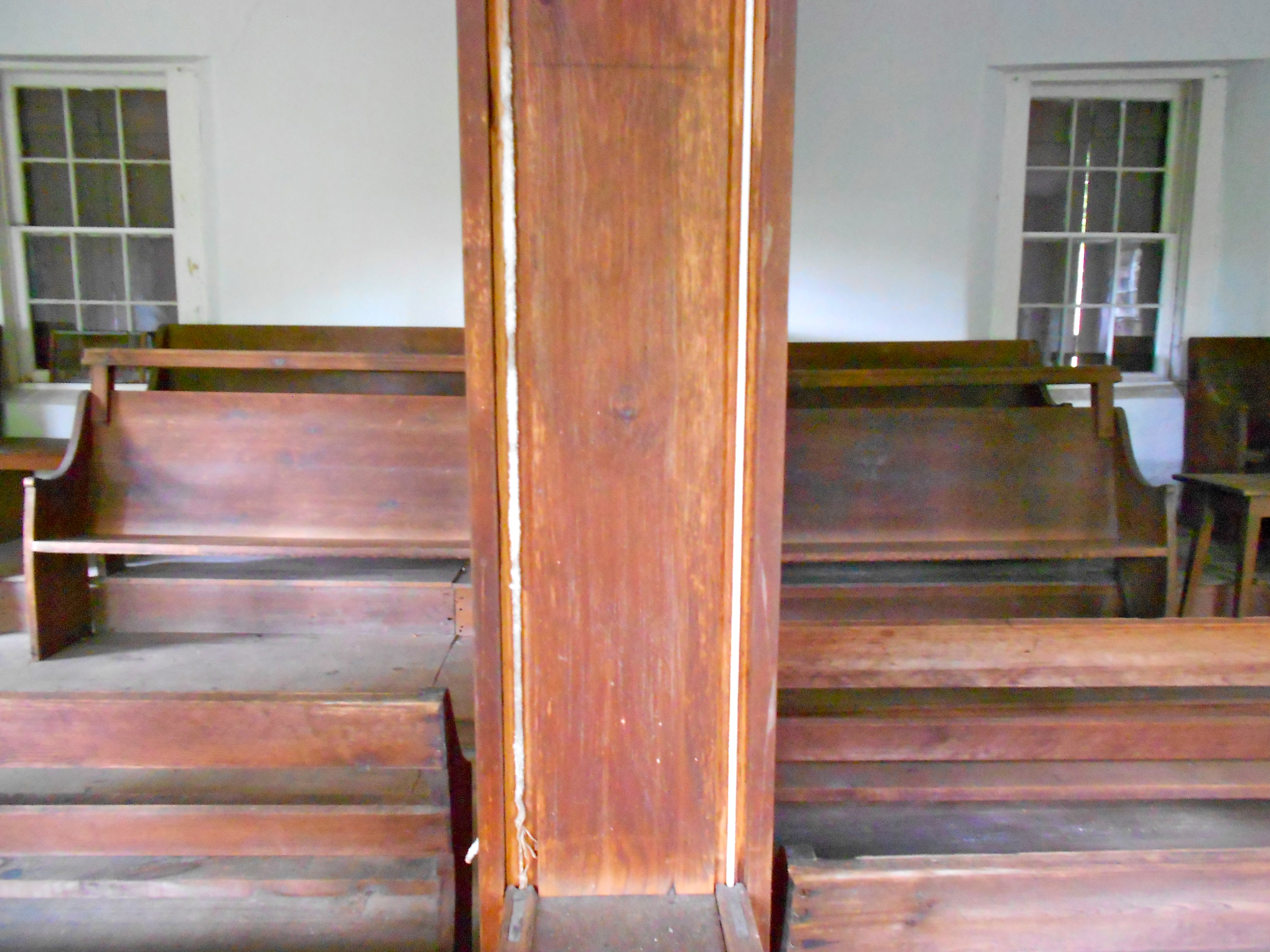 Colora Meetinghouse listed on the NRHP on August 22, 1977. On Corncake Row; North of Colora on Lipencott Rd., Colora, Cecil County, Maryland